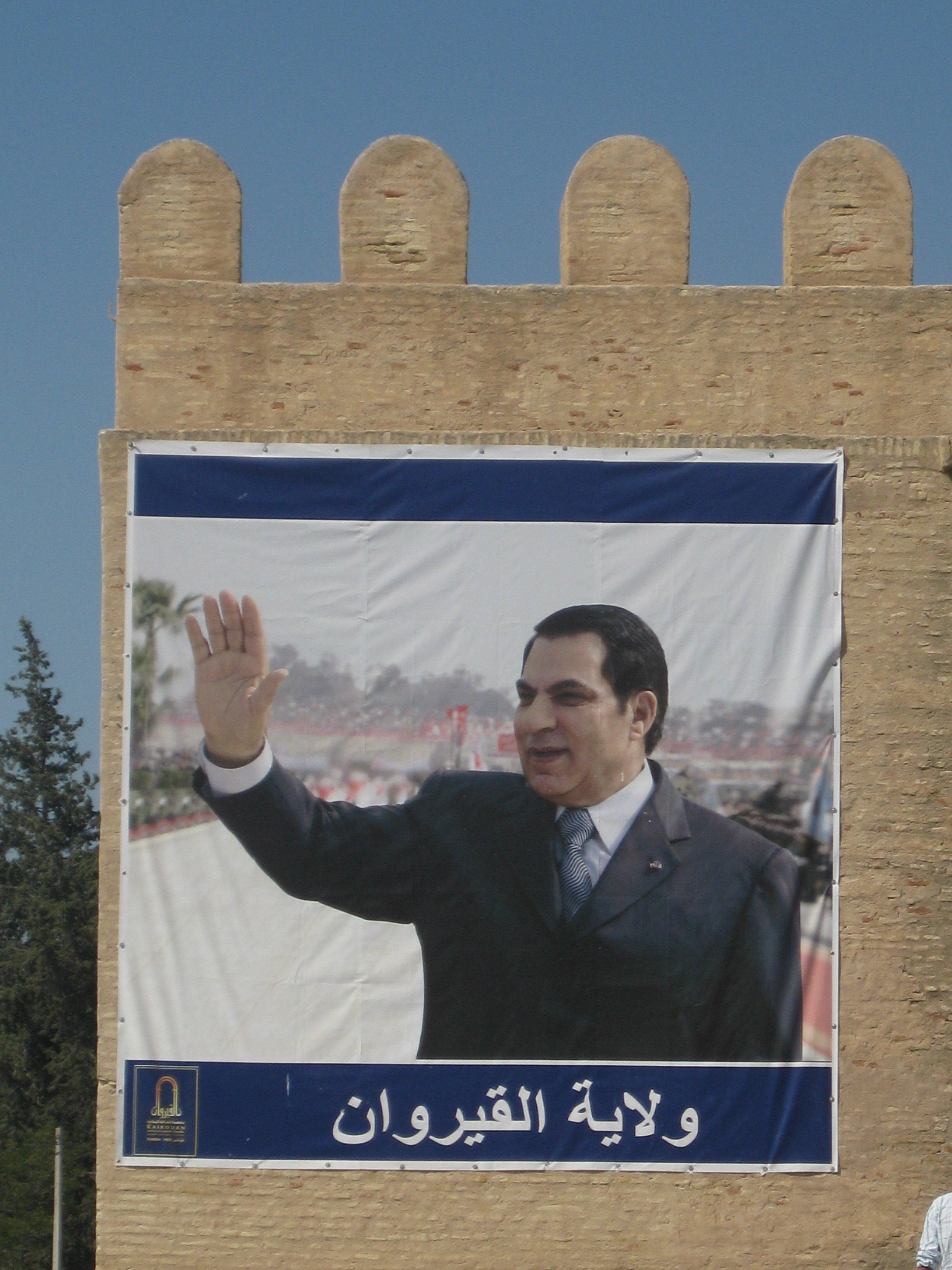 A banner stating "Welcome to the governorate of Kairouan".